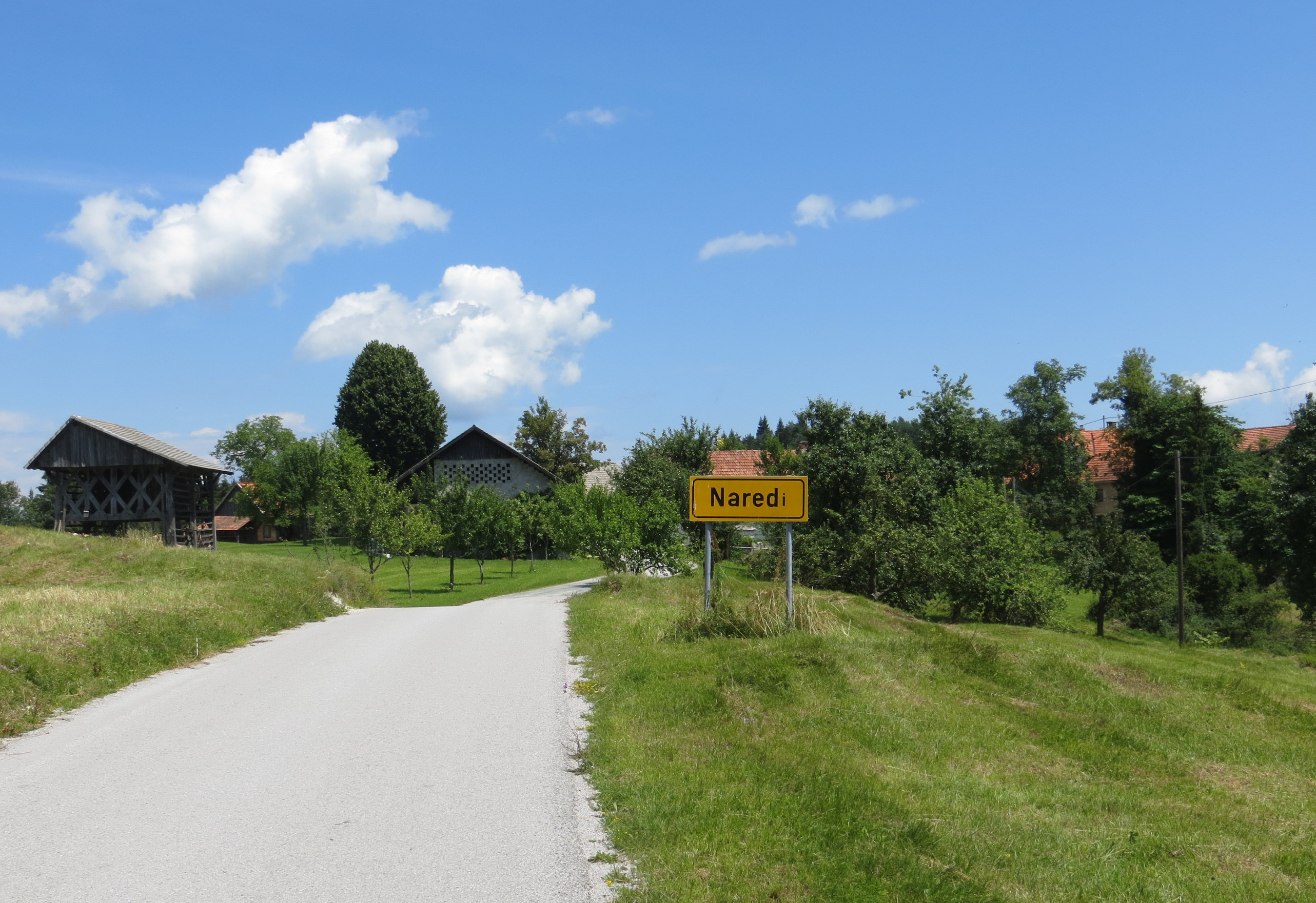 Naredi, Municipality of Velike Lašče, Slovenia